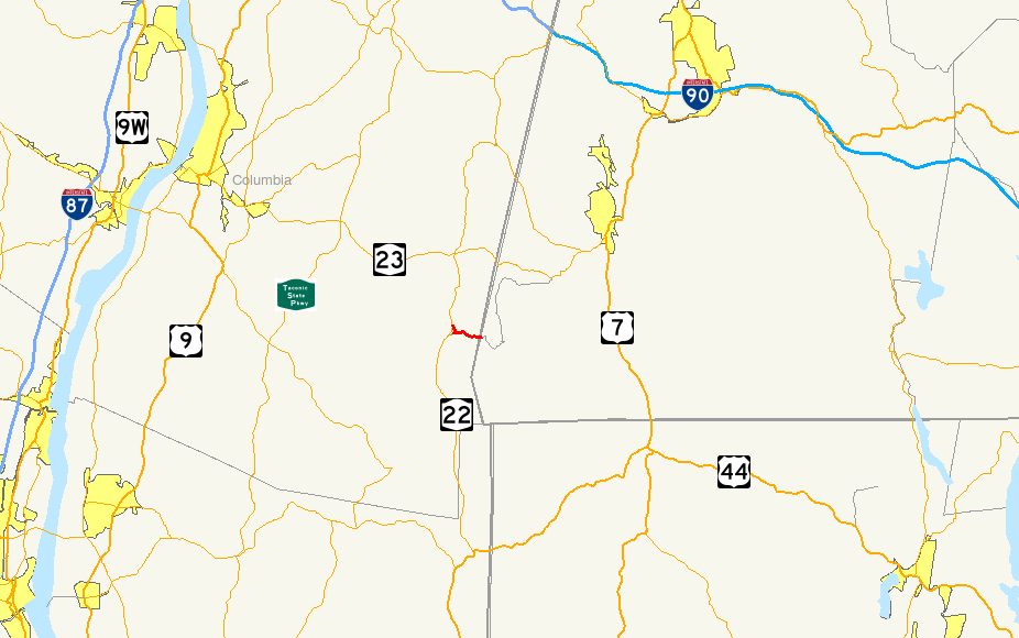 Map of New York State Route 344